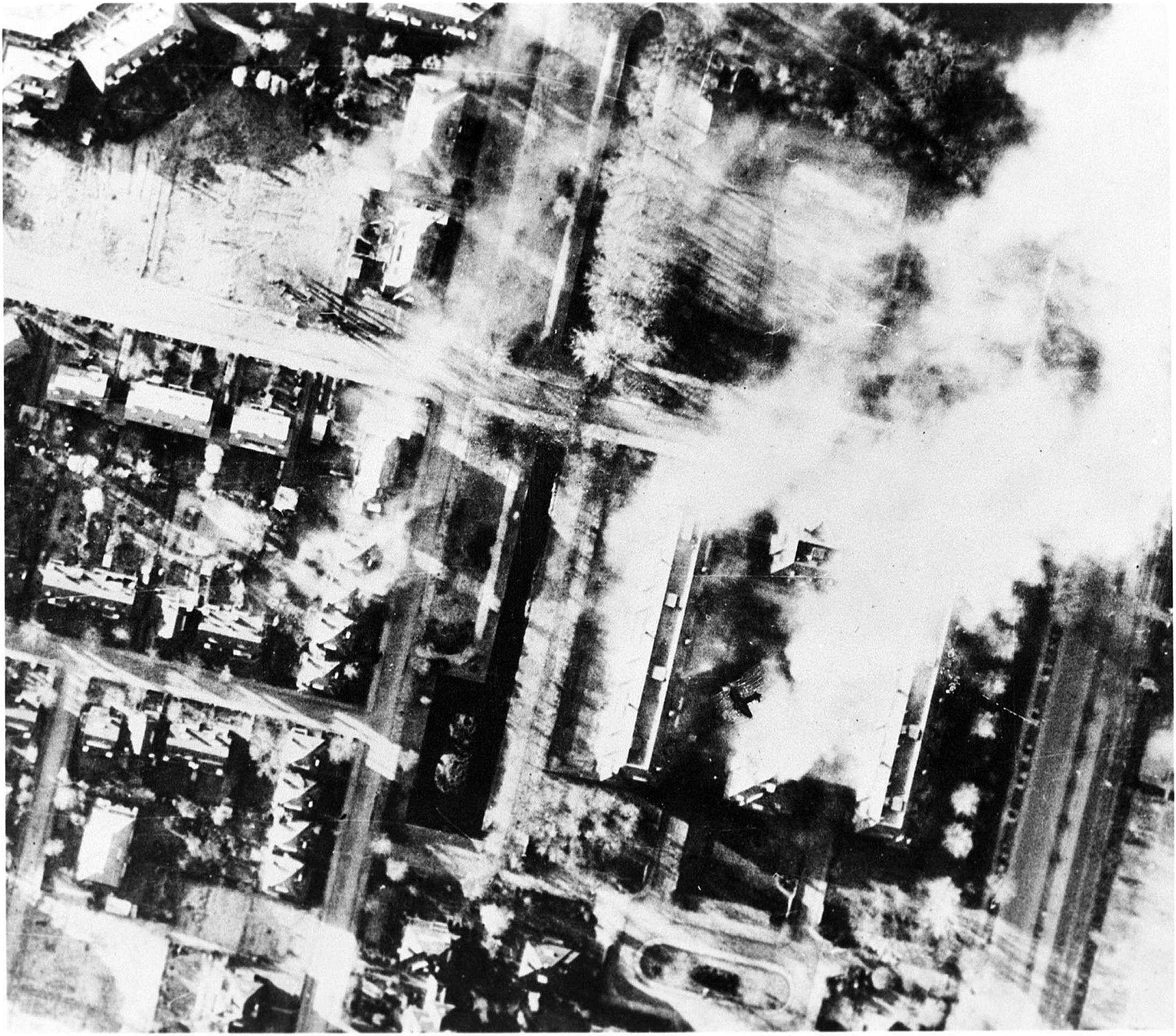 Bombing of the neighborhood Marlot in The Hague, Netherlands, by Spitfires of the Royal Airforce, on 24 January, 1945